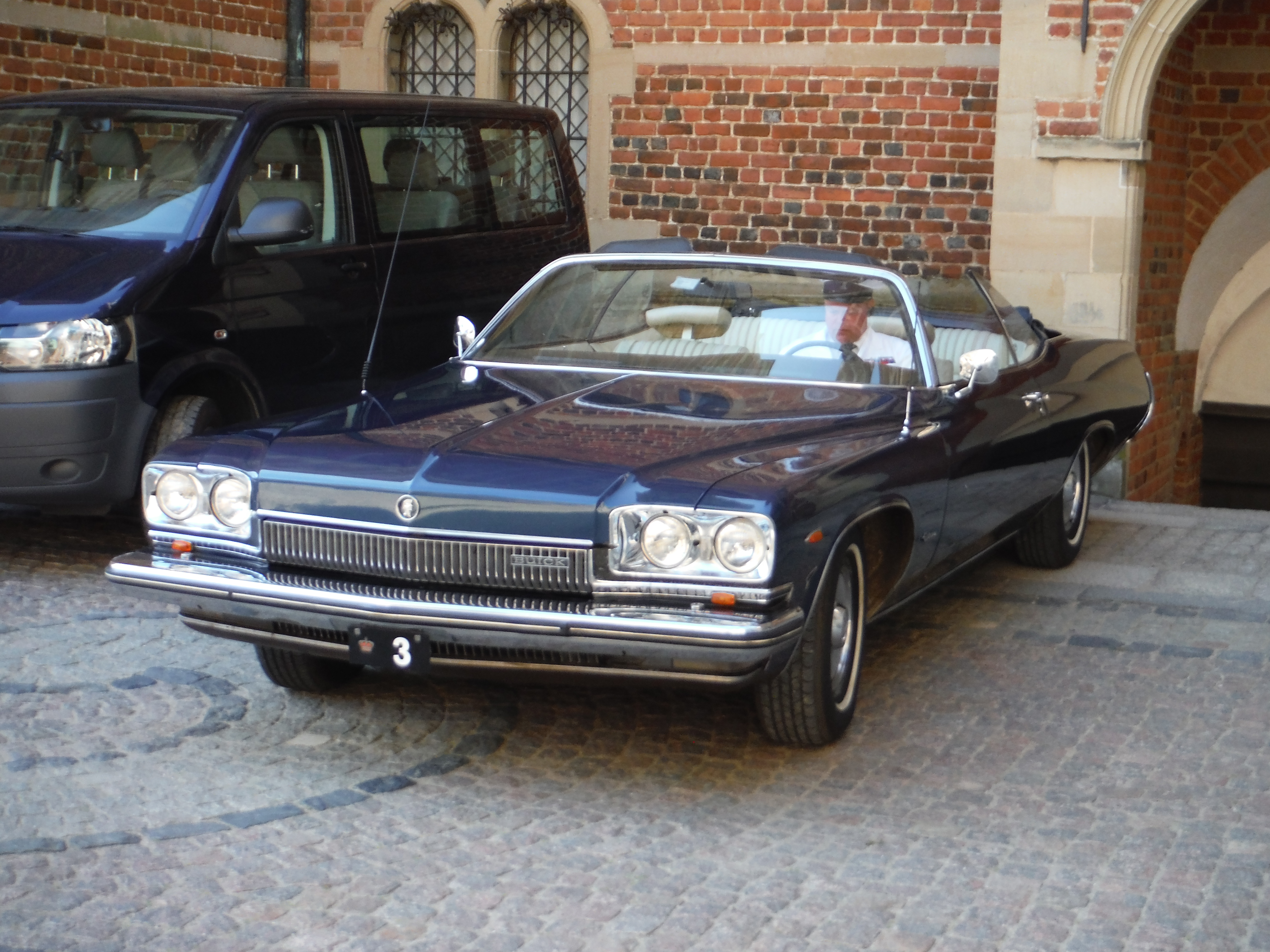 Royal Car Krone 3, Frederiksborg castle A Buick Centurion Convertible 1972 used by Henrik, Prince Consort of Denmark